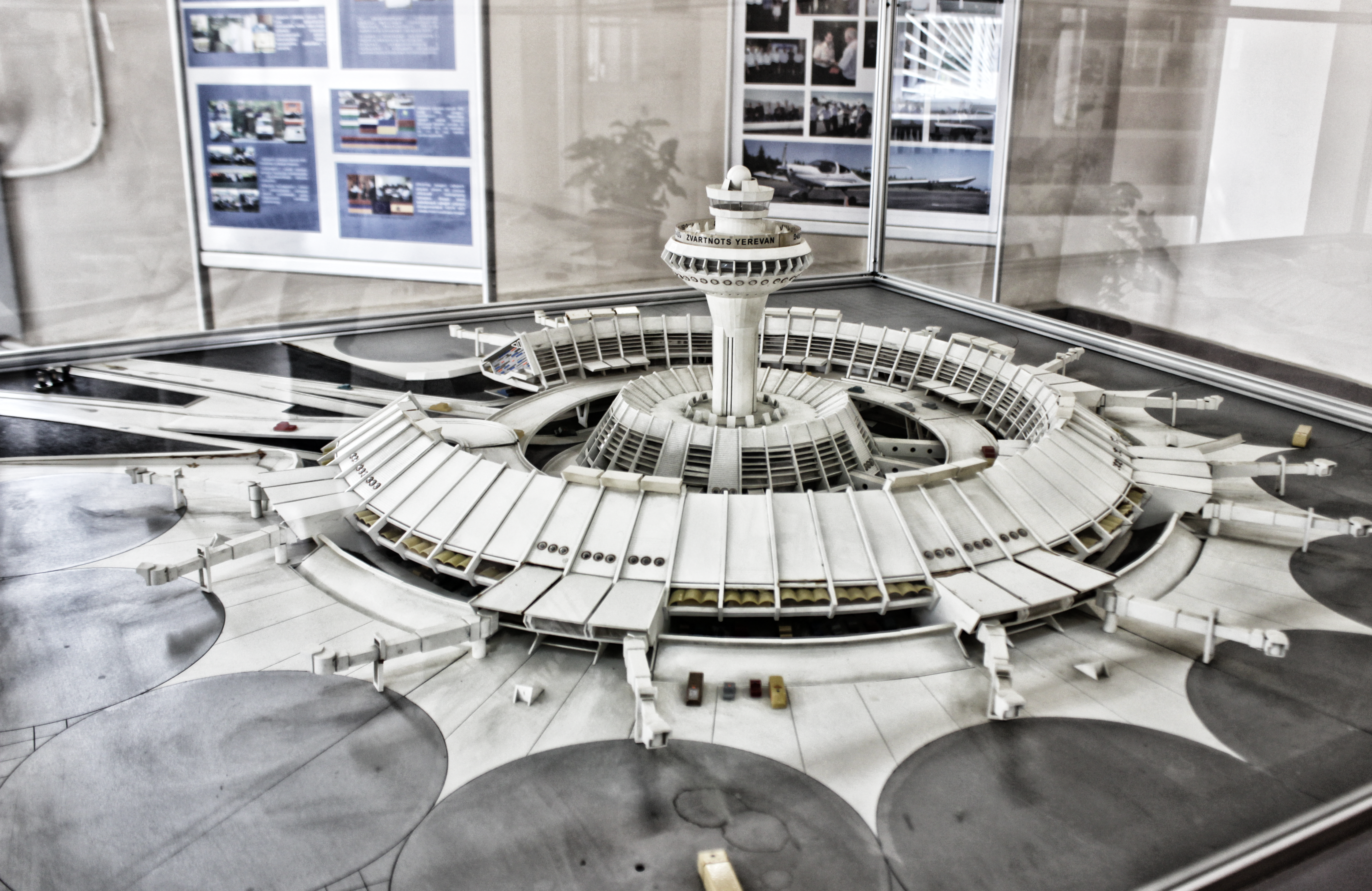 Zvartnots airport building model in administration building hall.